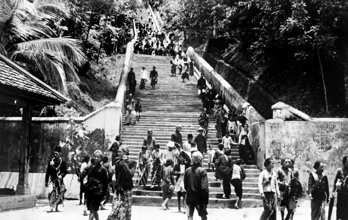 (this note is not direct translation of text in dutch) - the main stairs to the graveyard of Sultan Agung and his descendants - this picture was reversed, between right and left. The roof tip should be on the right side, it is a roof of paseban building. The reference to PBX excludes Sultan Agung, and the Yogyakartan graves...